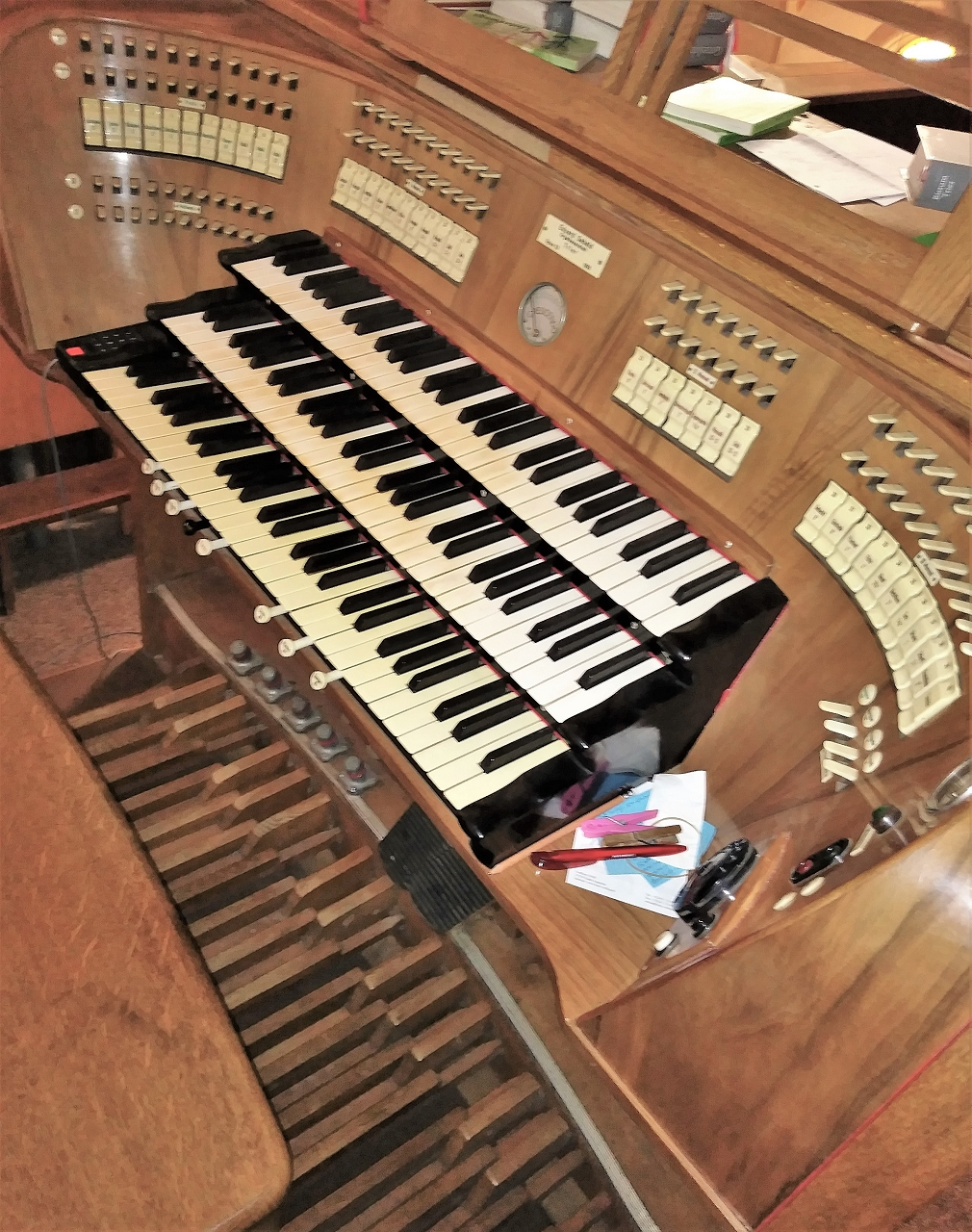 Sebald-Orgel in Buch im Hunsrück